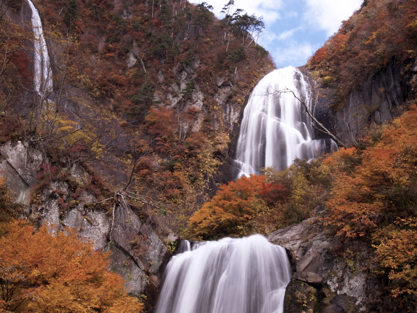 Yasu no Taki Falls in Kitaakita, Akita pref., Japan.